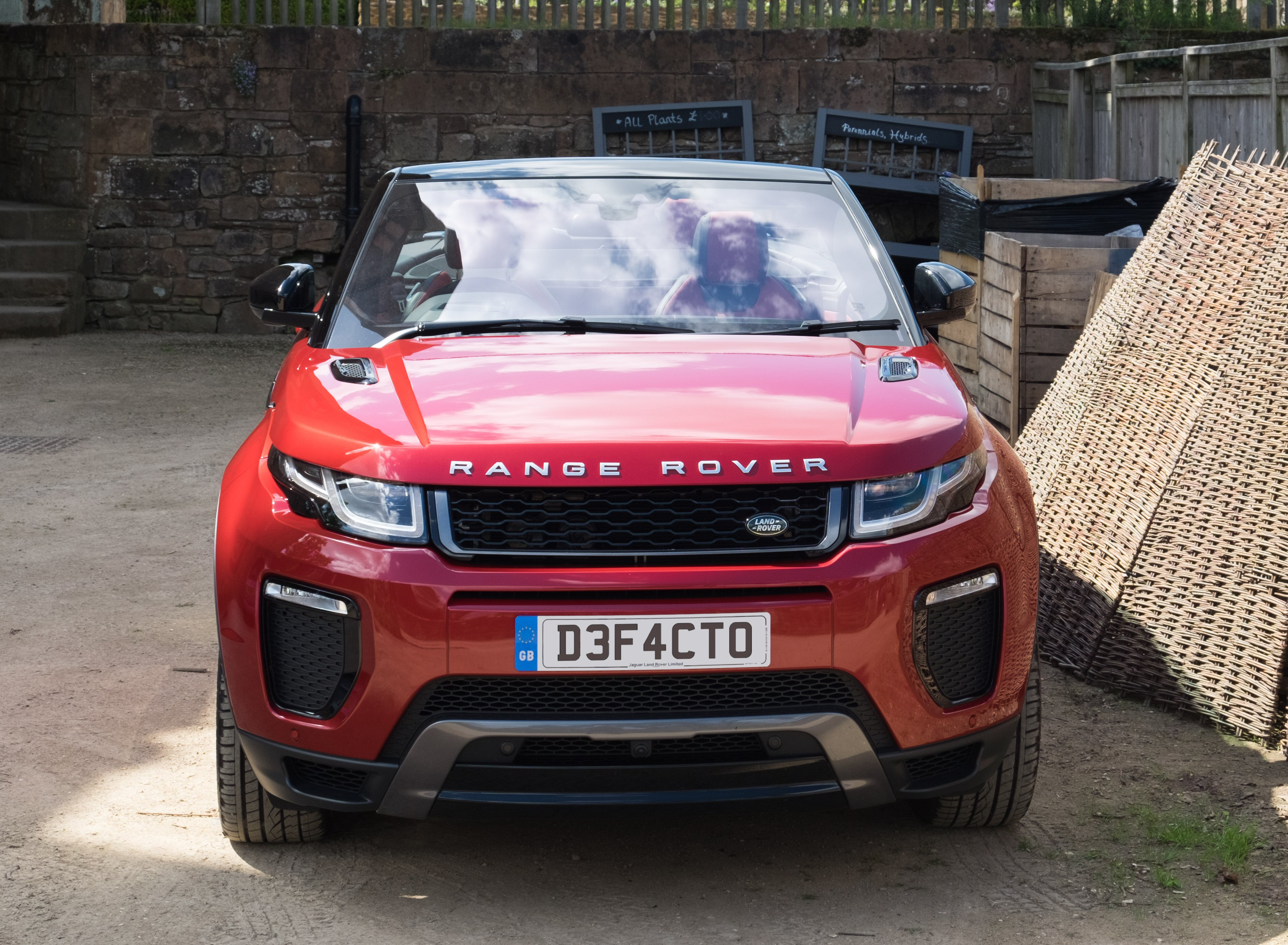 A 2016 Land Rover Range Rover Evoque Convertible HSE